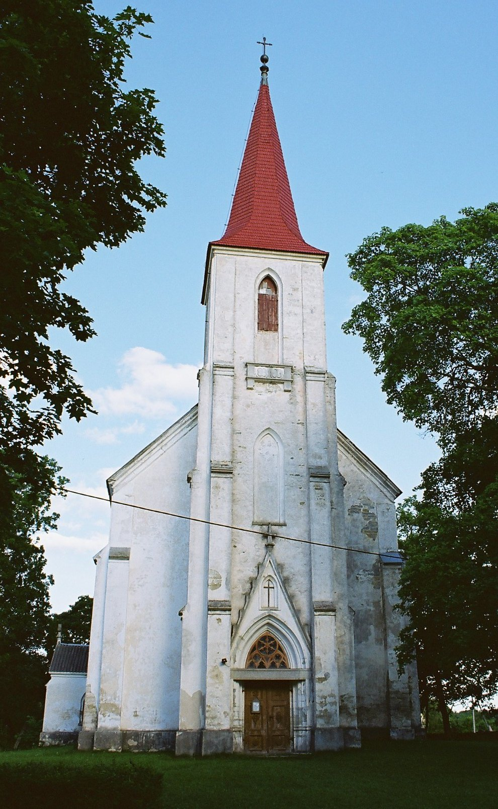 Mustjala church, 2006